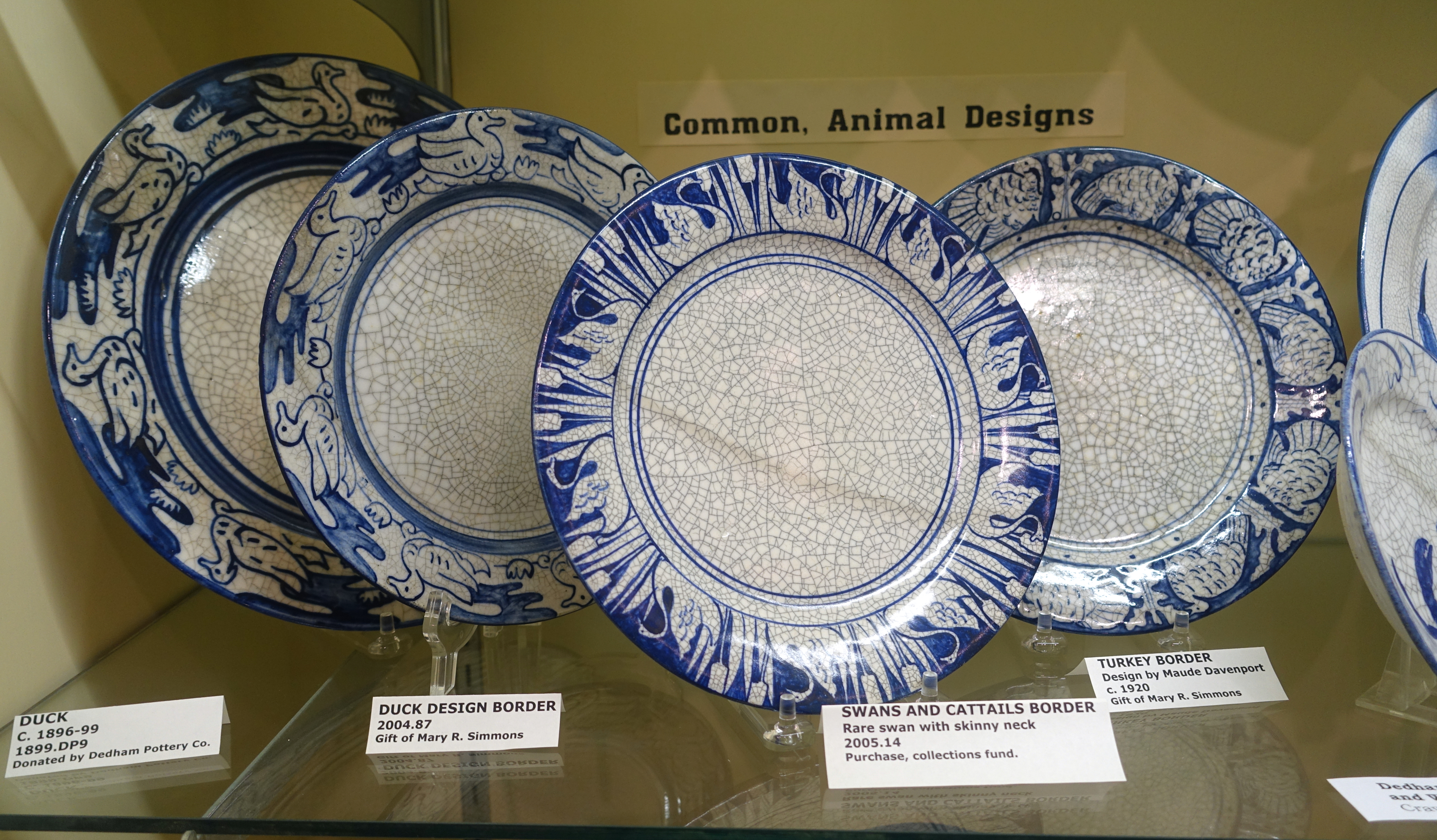 Dedham Pottery exhibit in the Dedham Historical Society - Dedham Massachusetts, USA. As utilitarian objects, items in this exhibit are NOT subject to copyright laws. Instead they are subject to Industrial Design Rights; see Industrial Design Right for more information. If any of these objects were ever covered by a design patent, that patent has expired, and thus this image is in the public domain.